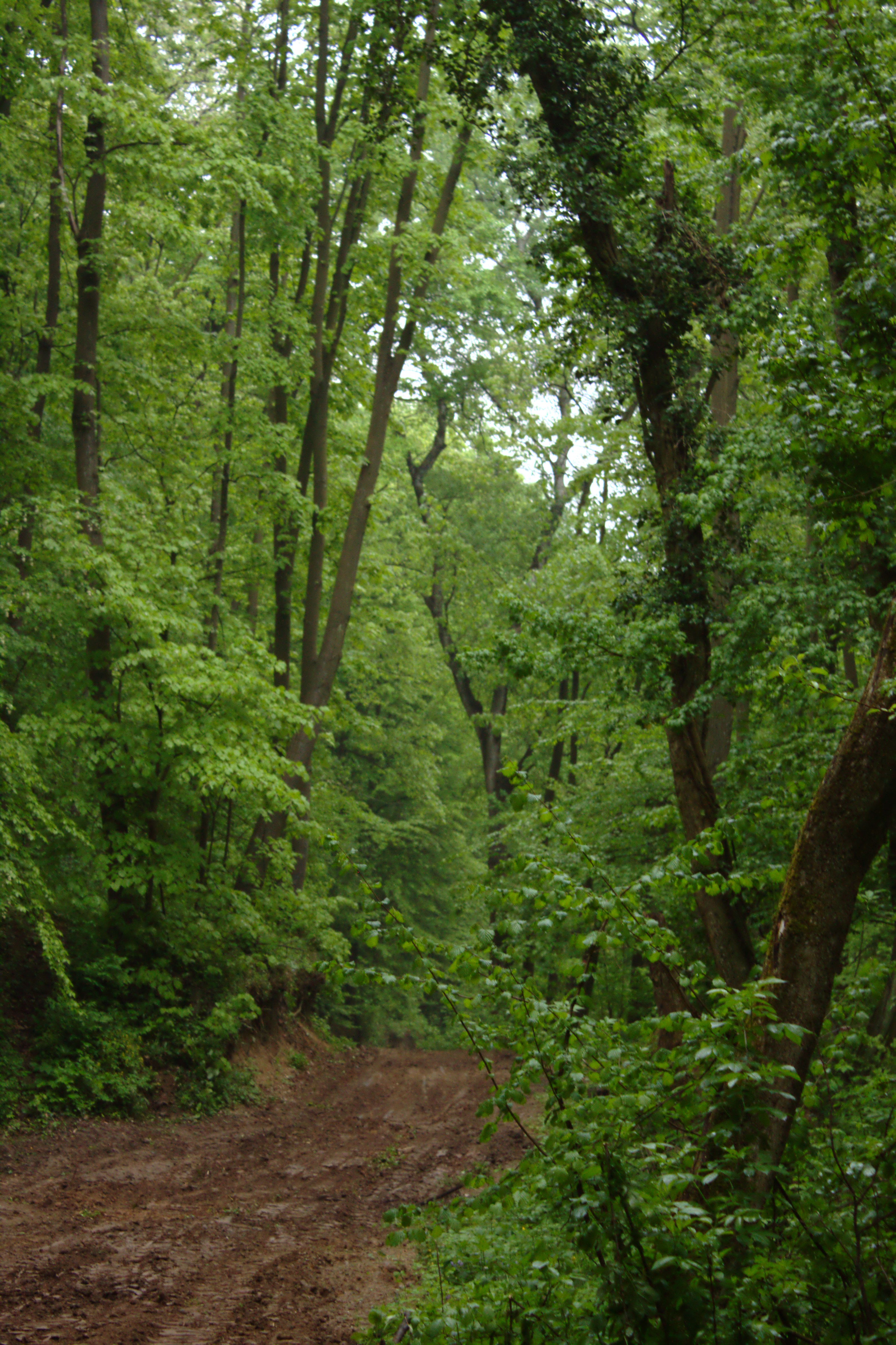 A road throught the valley of Ešikovački potok creek towards Stražilovo during a spring evening; Fruška Gora National Park, Serbia